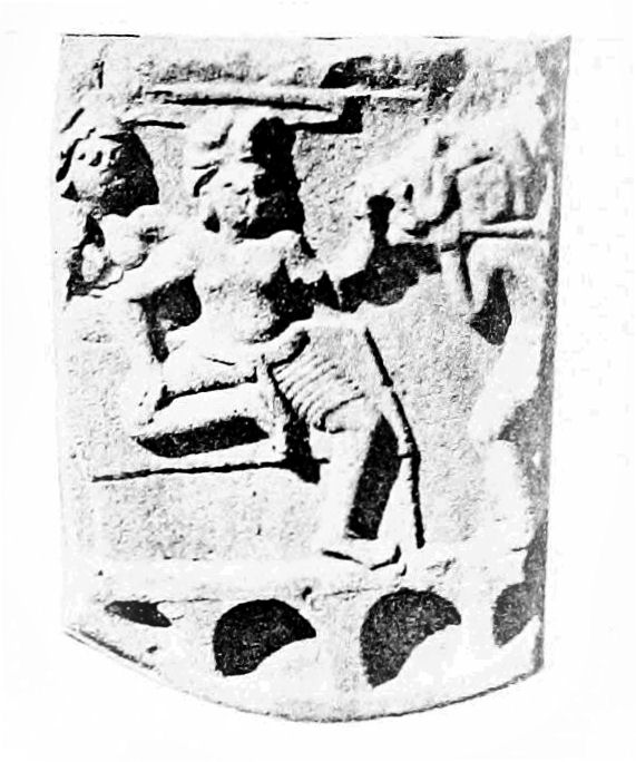 Mahabodhi Palace scene